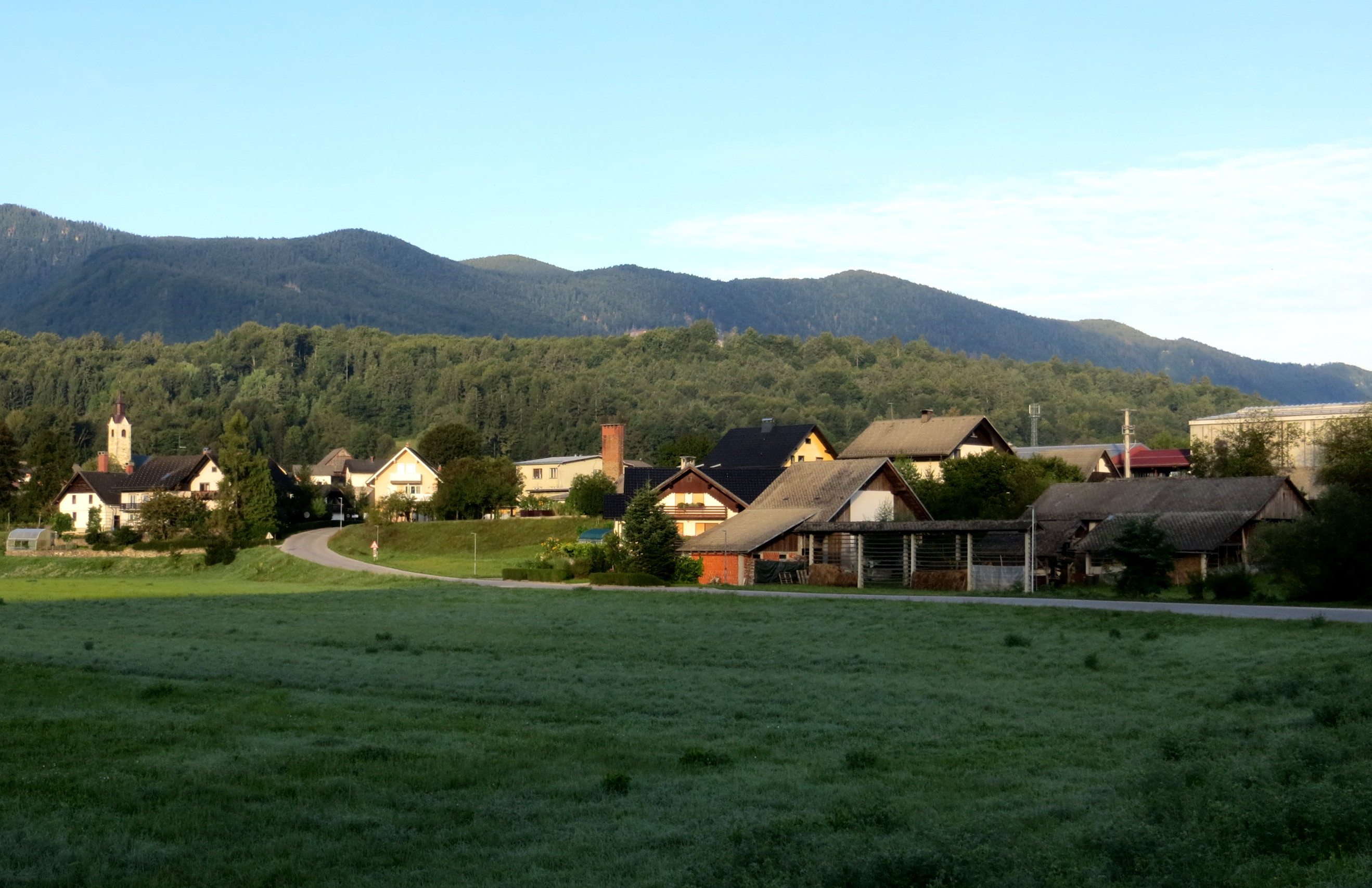 Otoče, Municipality of Radovljica, Slovenia